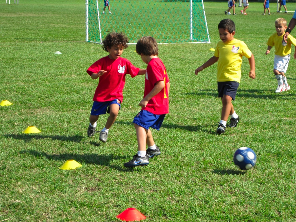 Ruben plays 2 positions, Mid Center or Forward player